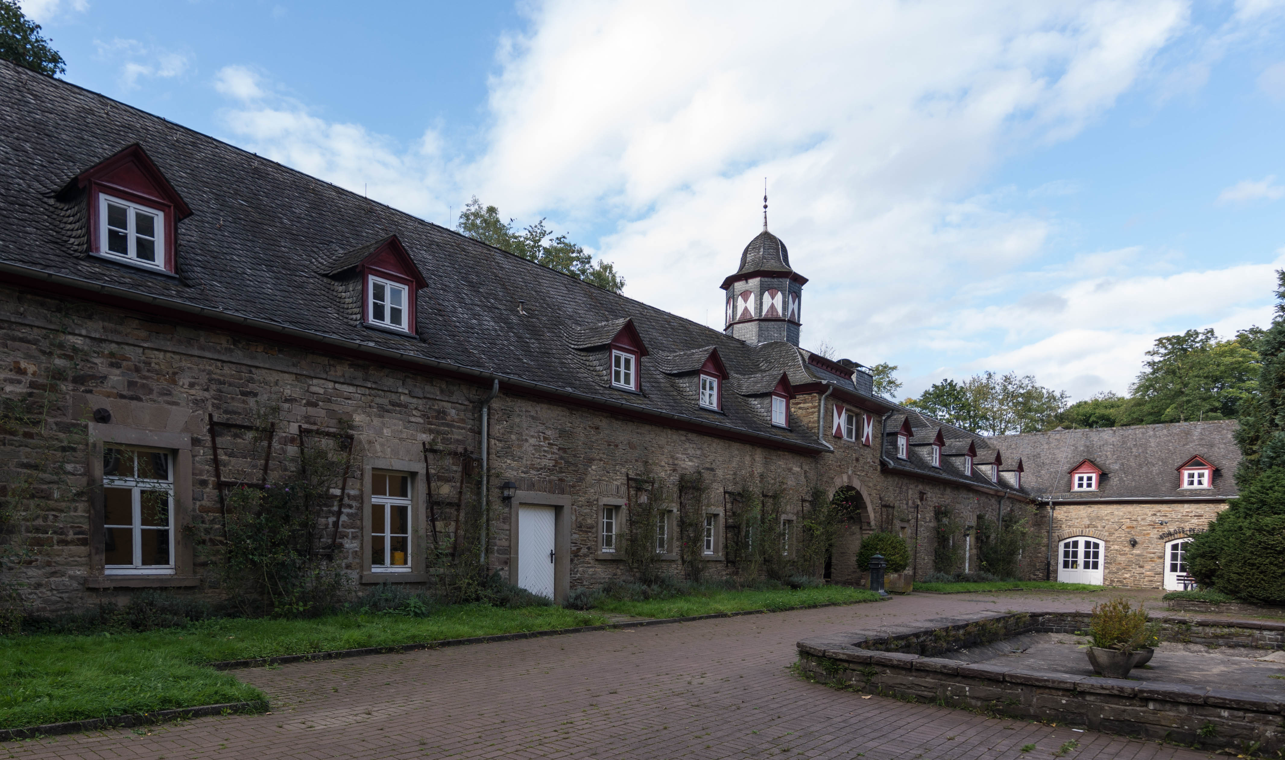 PrecastleThis is a photograph of an architectural monument., no. 80